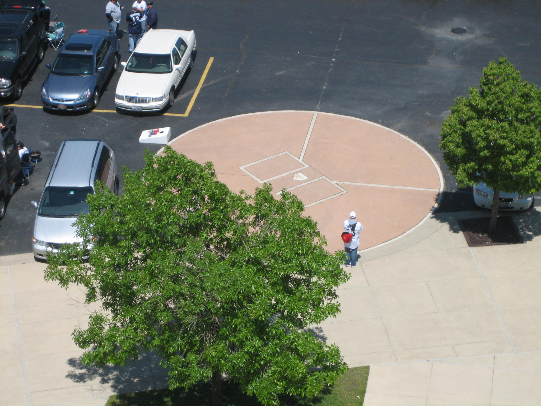 U.S. Cellular Field, original home plate of Comiskey Park I. Chicago, Illinois.